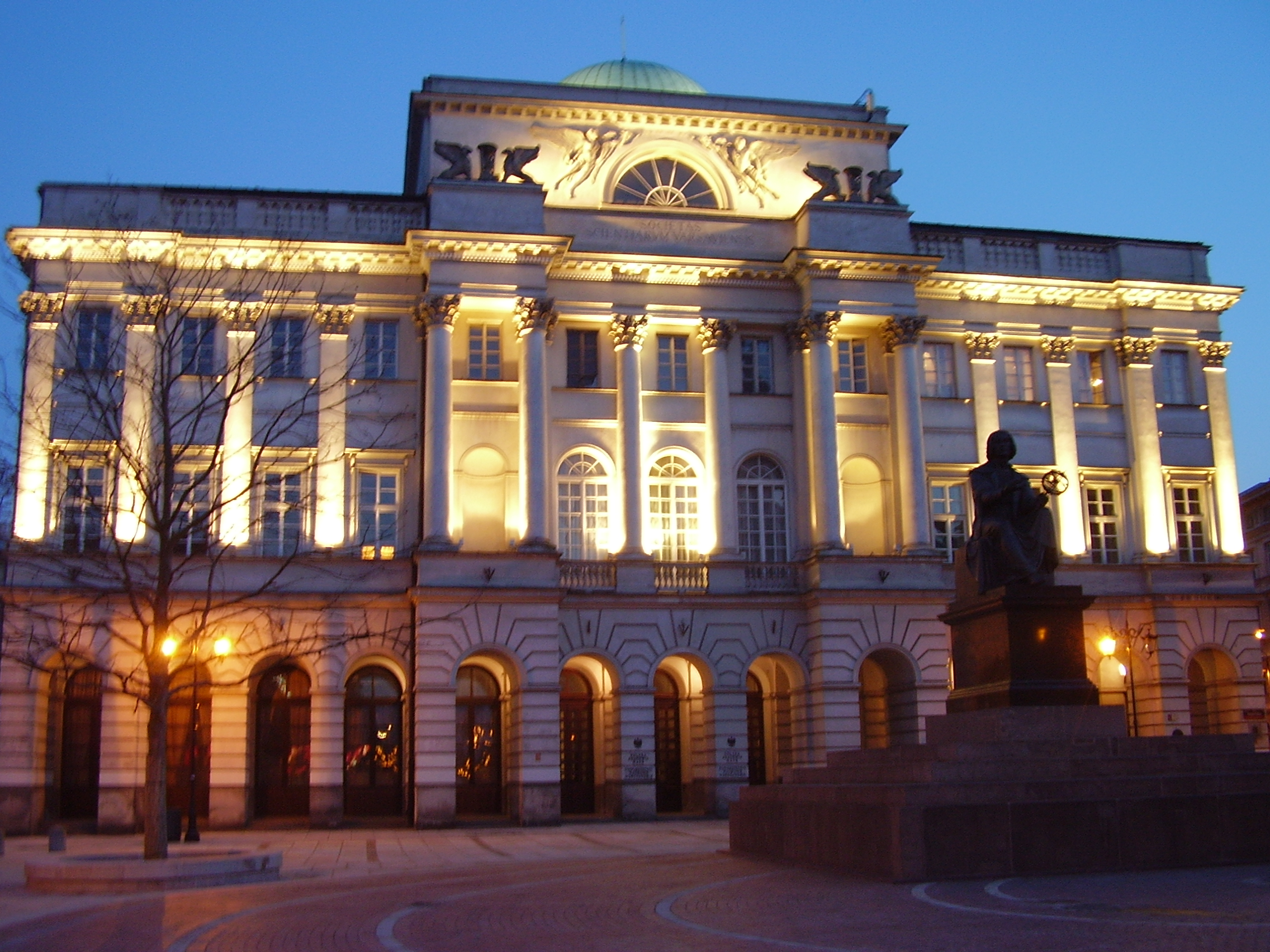 Warsaw during Easter 2008